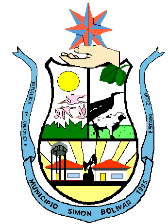 Coat of arms of Simon Bolivar municipality. Zulia state. Venezuela